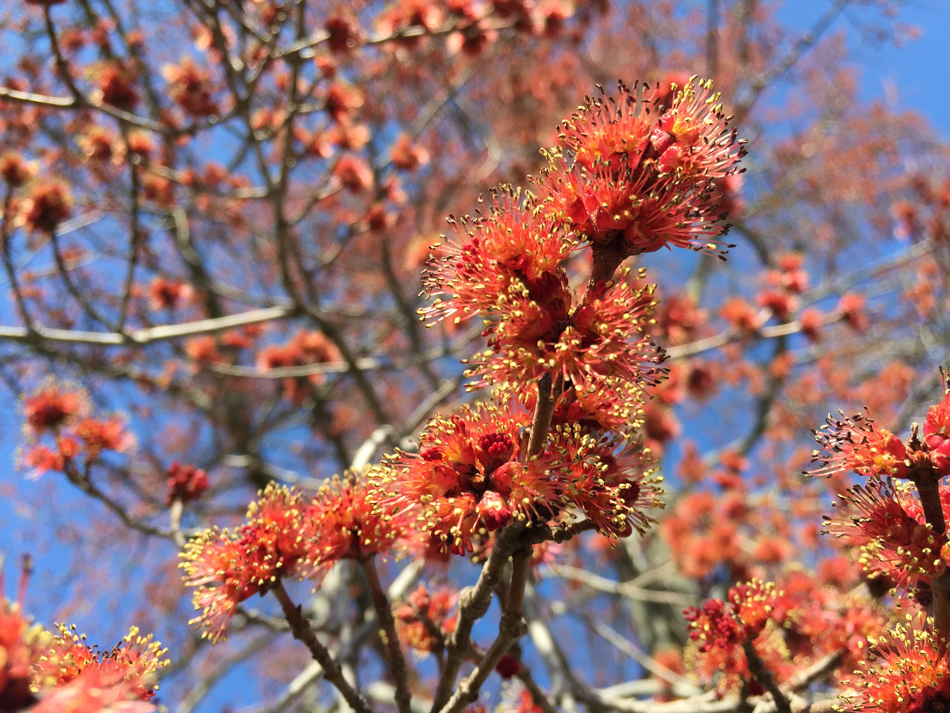 Male Red Maple flowers on Bayberry Road in Ewing, New Jersey